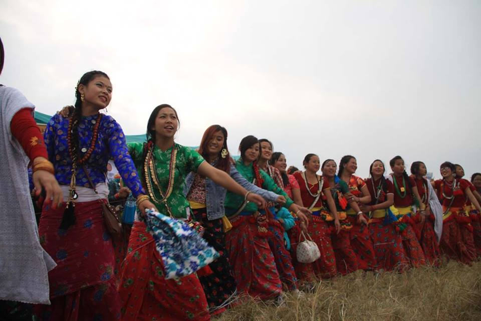 Sunuwar Koich Puki at Tudikhelनेपाली: सुनुवार उधौली मा खुशीयाली मनाउदै रमाउदै